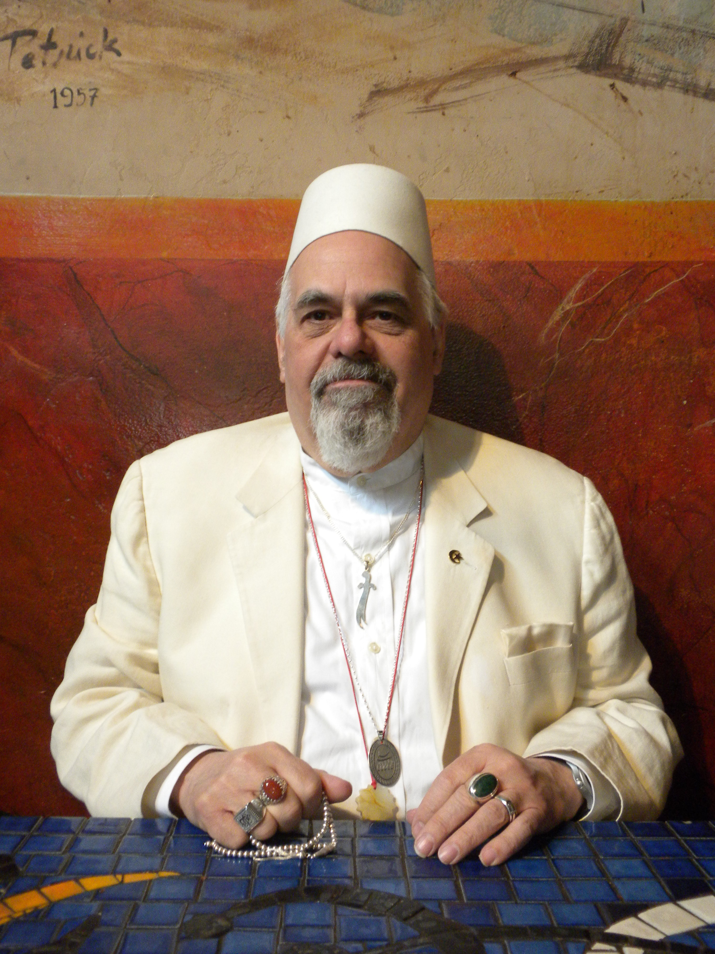 American journalist, Stephen Suleyman Schwartz, is pictured at the Cafe Trieste in San Francisco in early 2013.